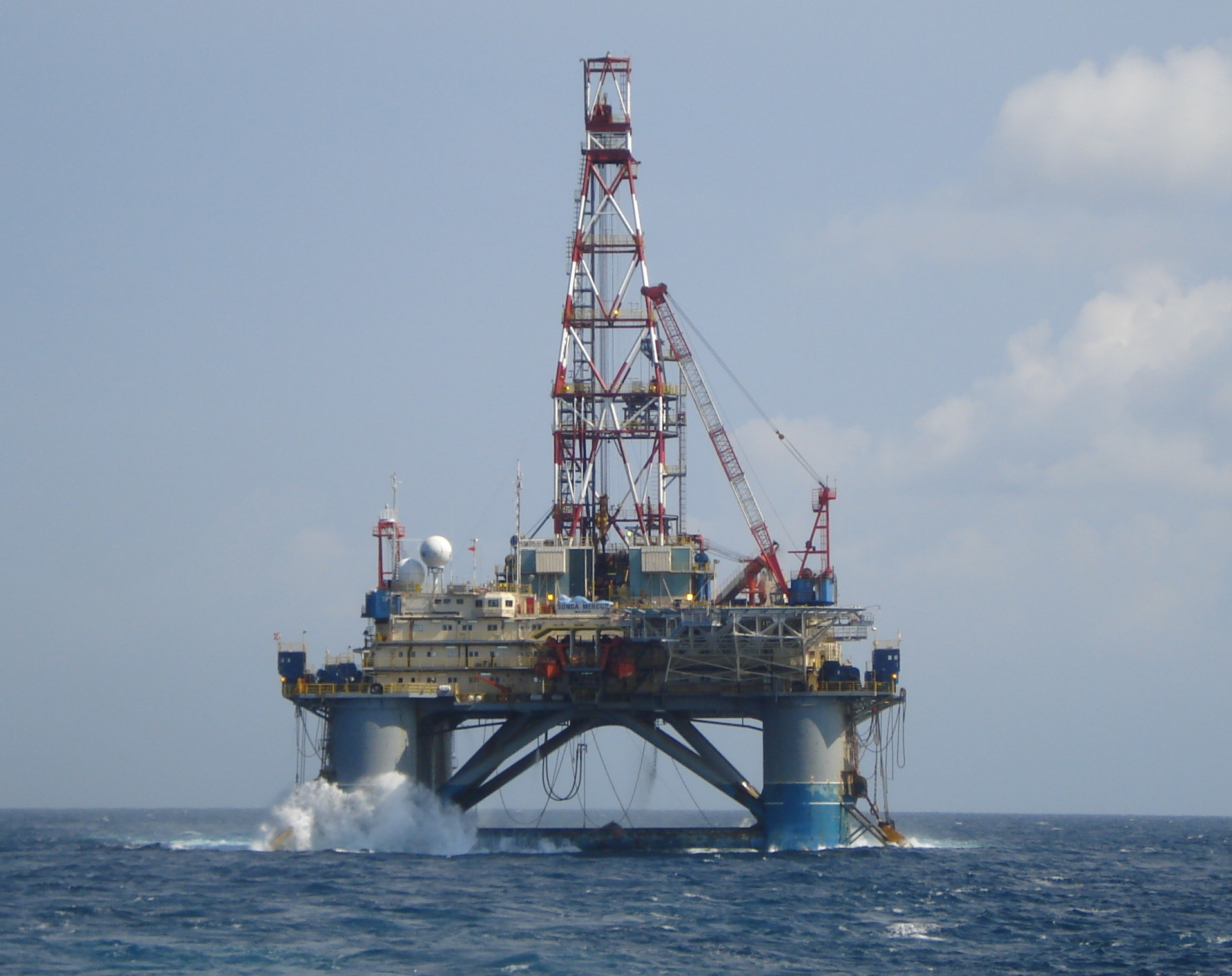 Songa Mercur semisubmersible